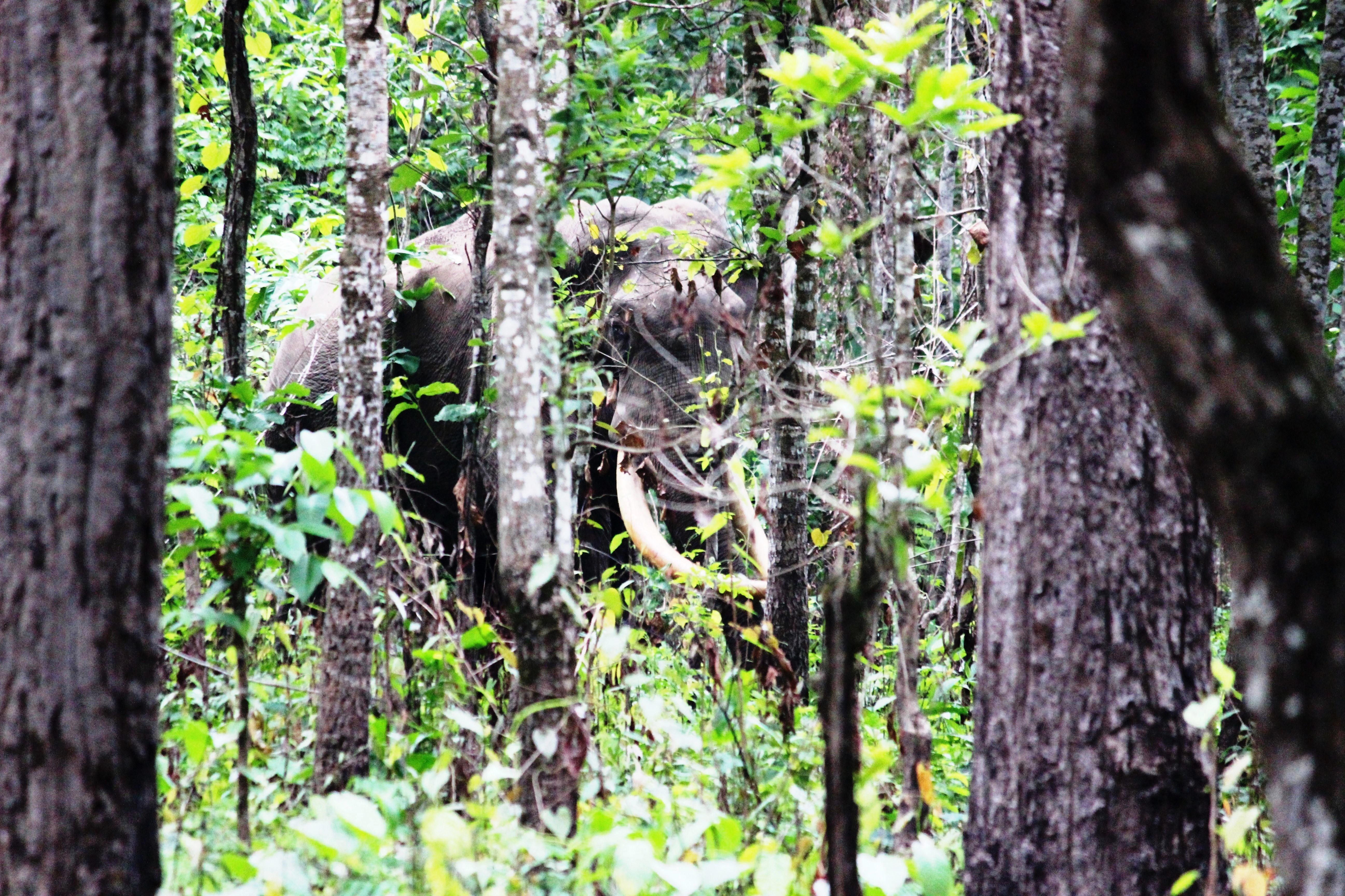 The photo was taken at Jaldapara Wildlife Sanctuary in the Indian state of West Bengal on 27th May, 2015 to capture a camouflaged male elephant.